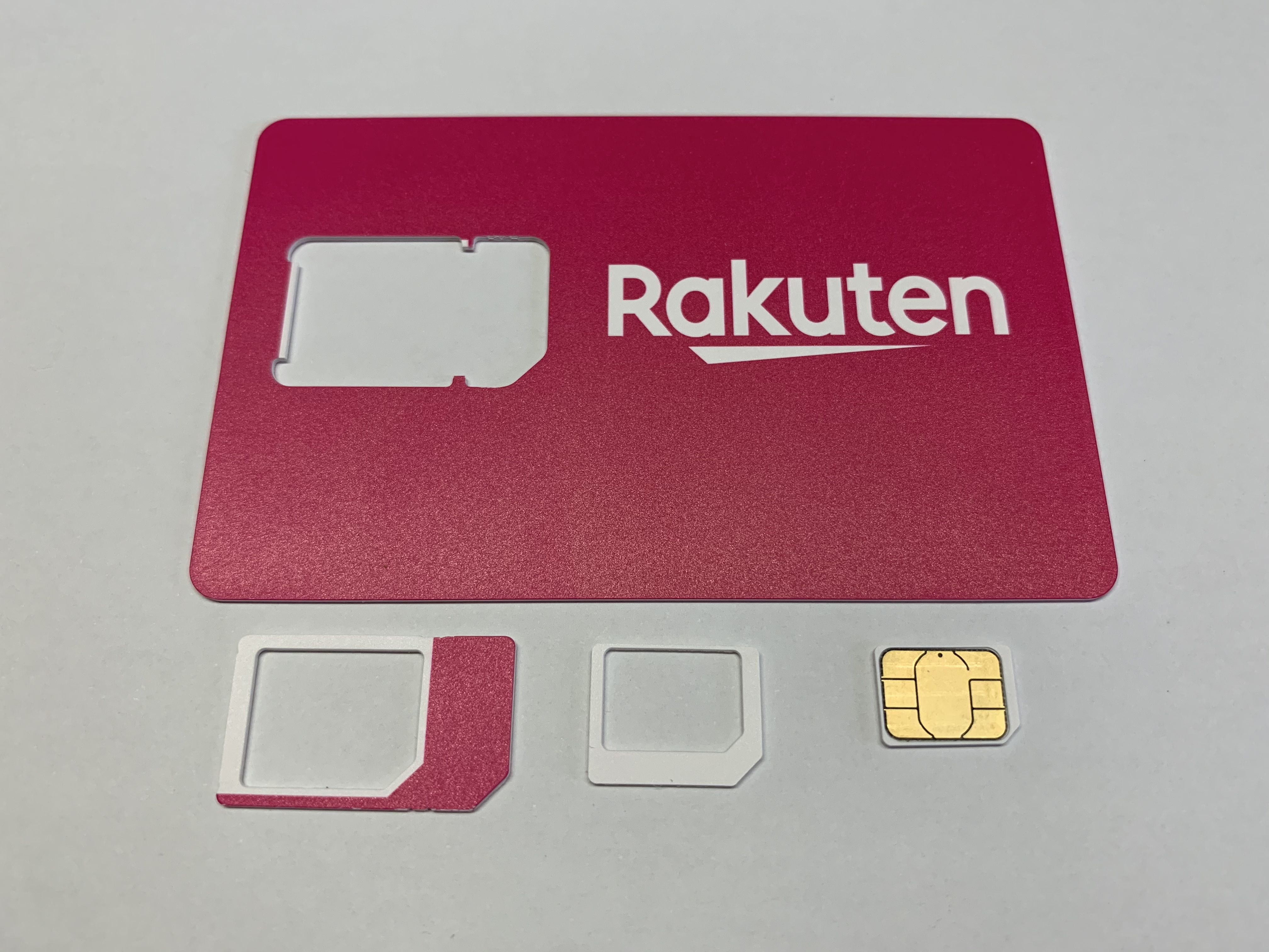 Multi-cut SIM Rakuten Mobile